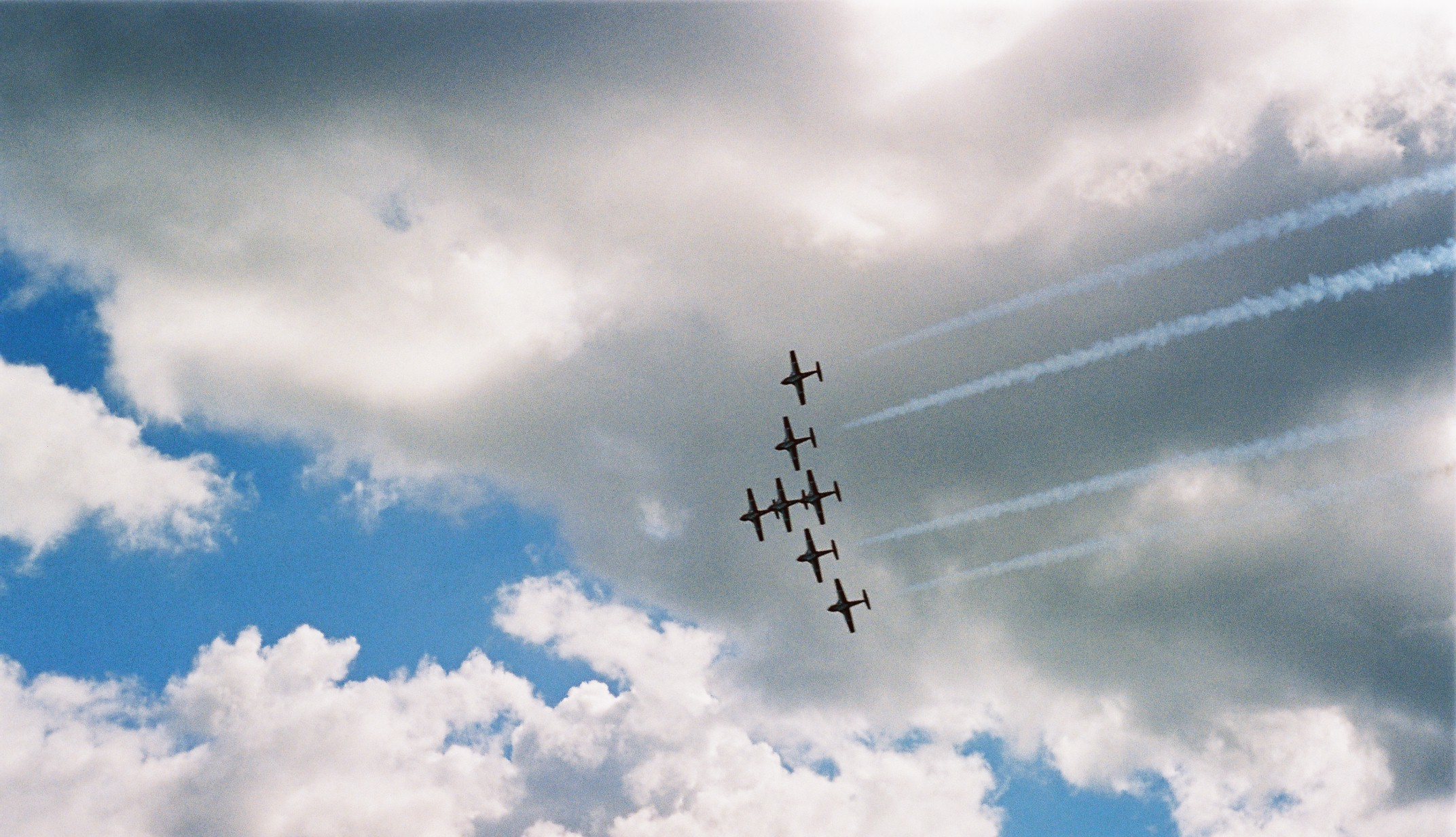 The Canadian Snowbirds aerobatic demonstration team in formation over Humber Bay off Toronto in September, 2005.